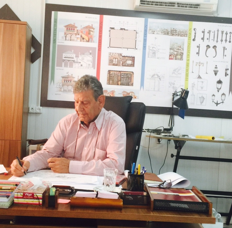 ahmad jafar at work